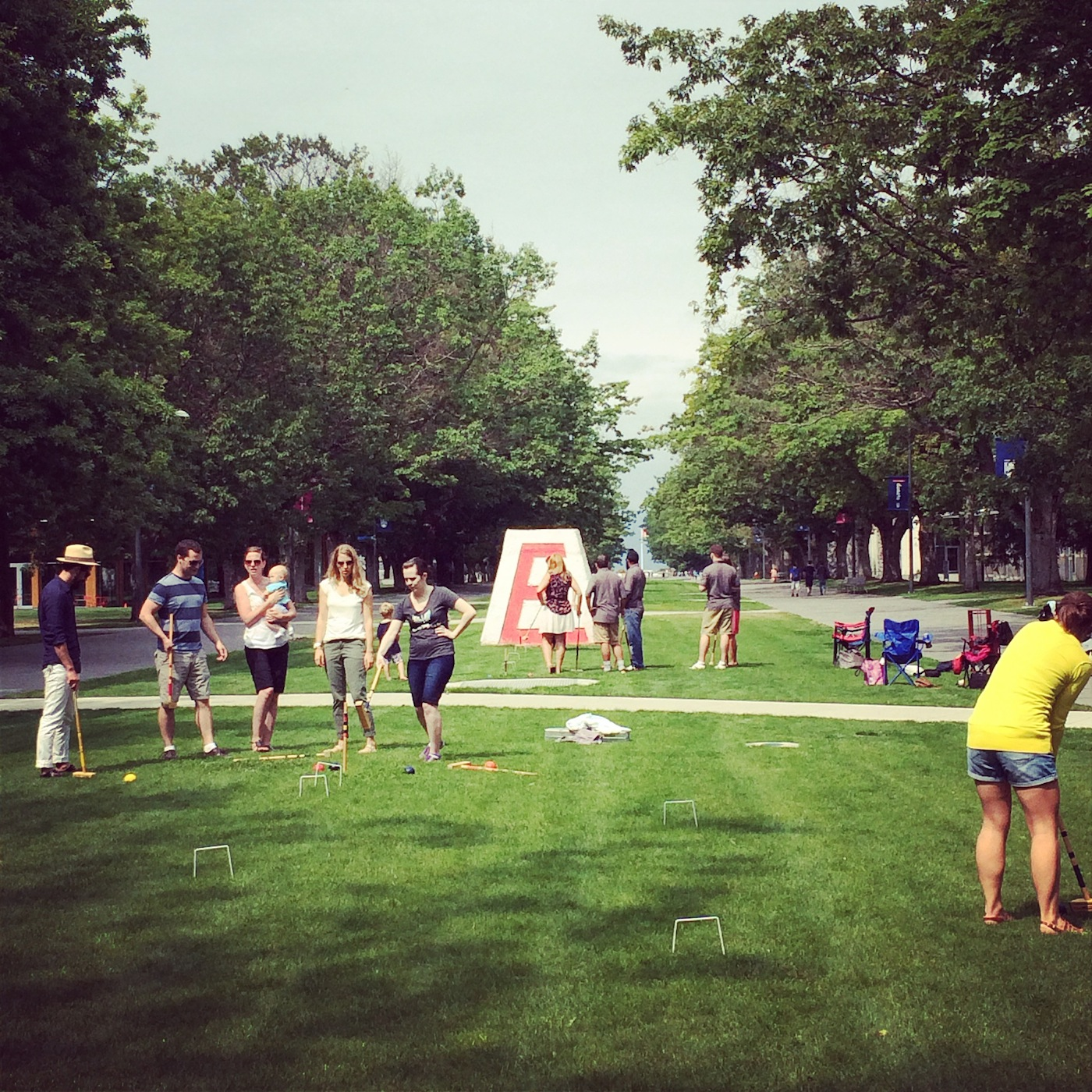 A view of Main Mall at the University of British Columbia, site of the 2014 Wile Cup first round.